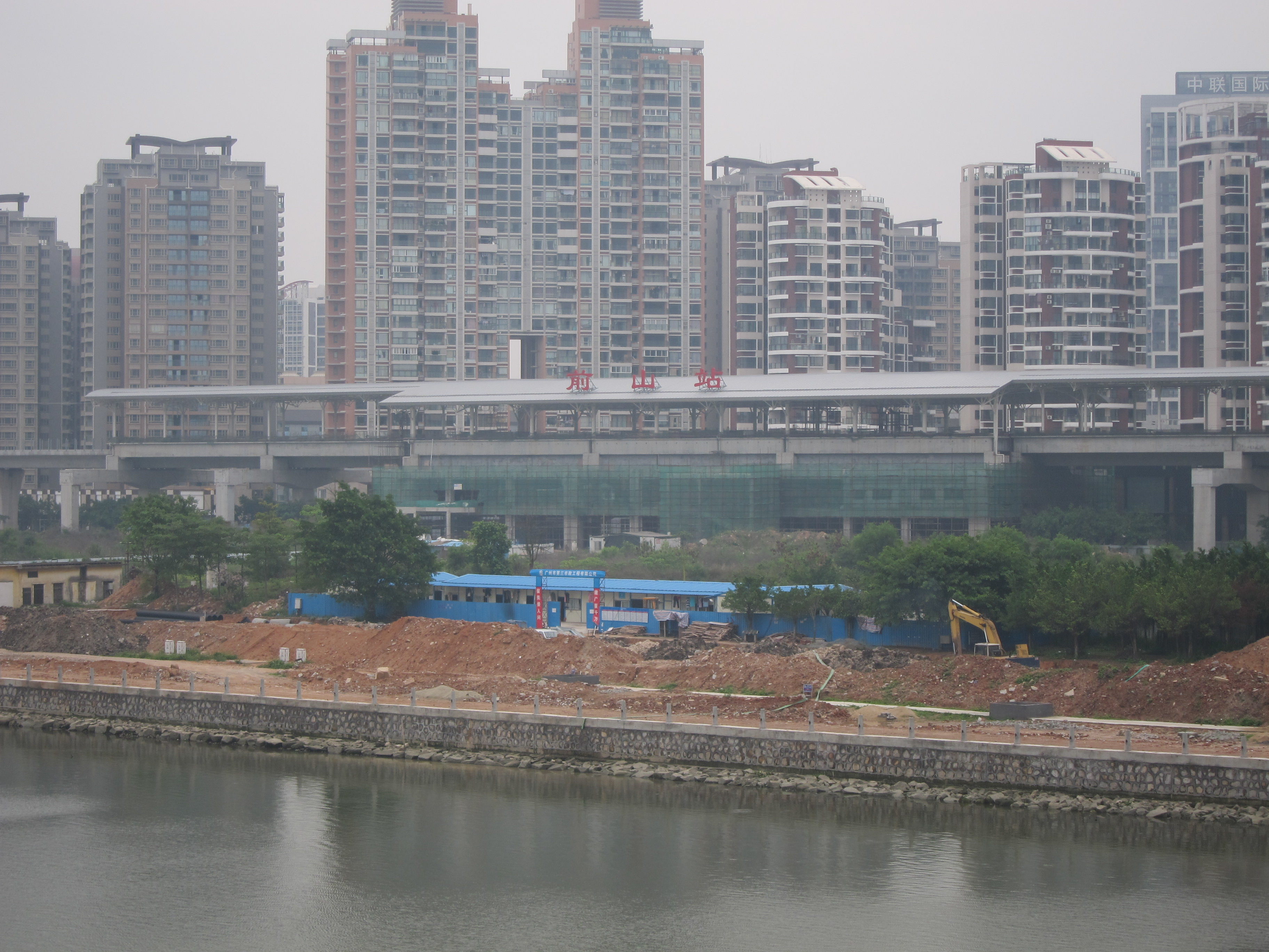 Qianshan Station, taken from the Qianshan Bridge.